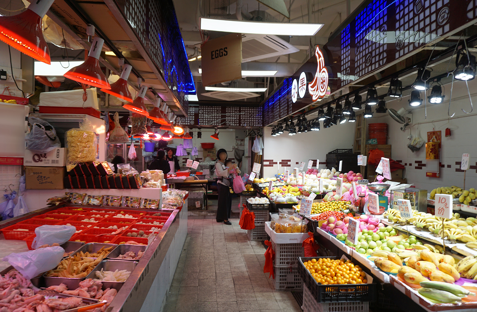 Peace Market in Sau Mau Ping, Hong Kong.